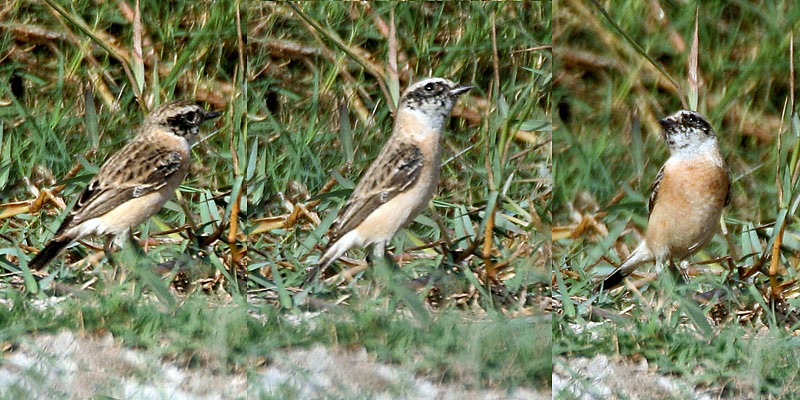 Siberian Stonechat Saxicola maurus at Hodal in Faridabad District of Haryana, India.